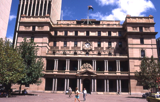 Customs House (James Barnet), Sydney, photo by Sardaka 10:00, 9 August 2007 (UTC)